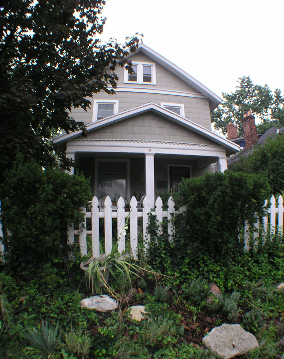 Glen Echo Neighborhood home located in the University Area of Columbus, Ohio